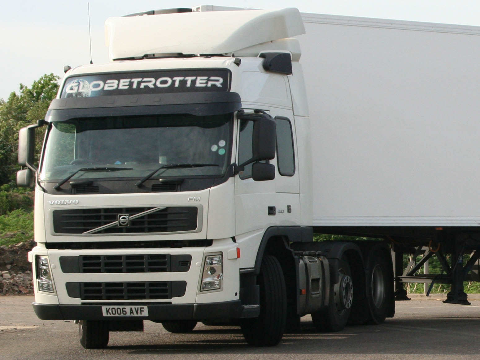 Volvo FM Globetrotter Heavy Tractor Unit, UK specification, 13 L, 6x2, 440 Horsepower. Built in 2006 in Volvo's Gothenburg plant in Sweden.